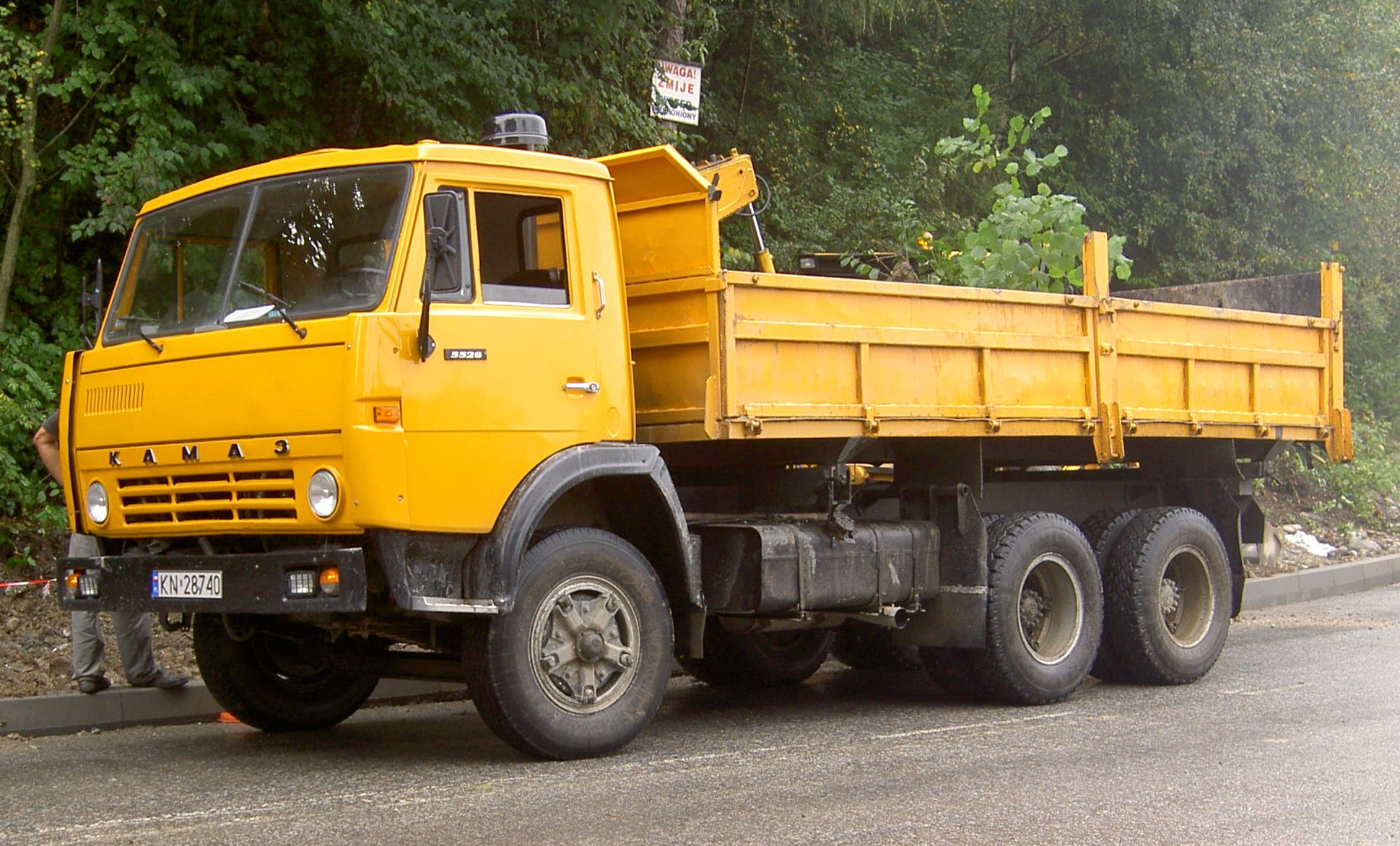 A Kamaz lorry in Niedzica, Poland Photo taken by me in September 2006